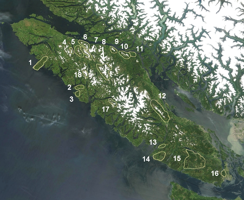 NASA satellite map marked with the boundaries of officially-named Vancouver Island Ranges, British Columbia.